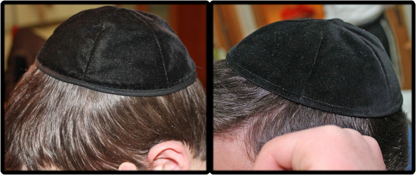 kipa im seret